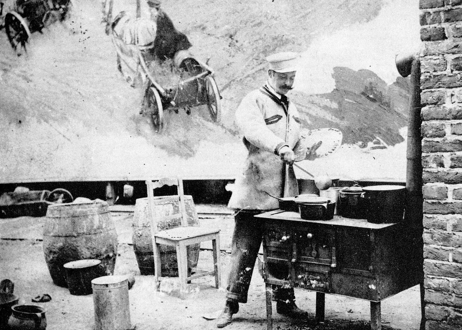 Kossak paints Panorama of Raclawice